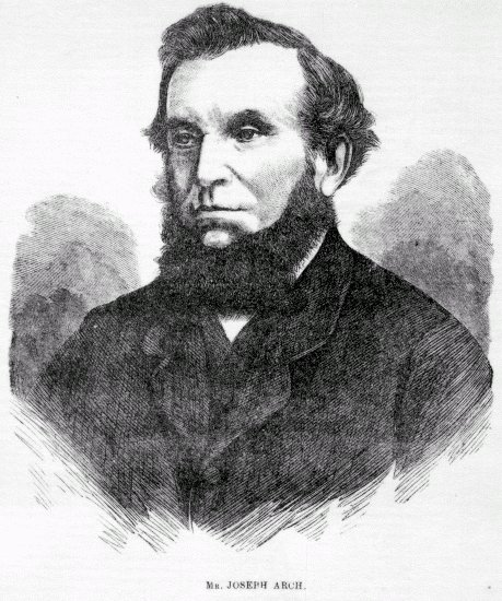 Joseph Arch